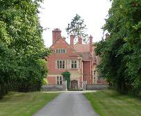 Wigfair Hall Wigfair Hall - Ffynnon Fair Near St.Asaph